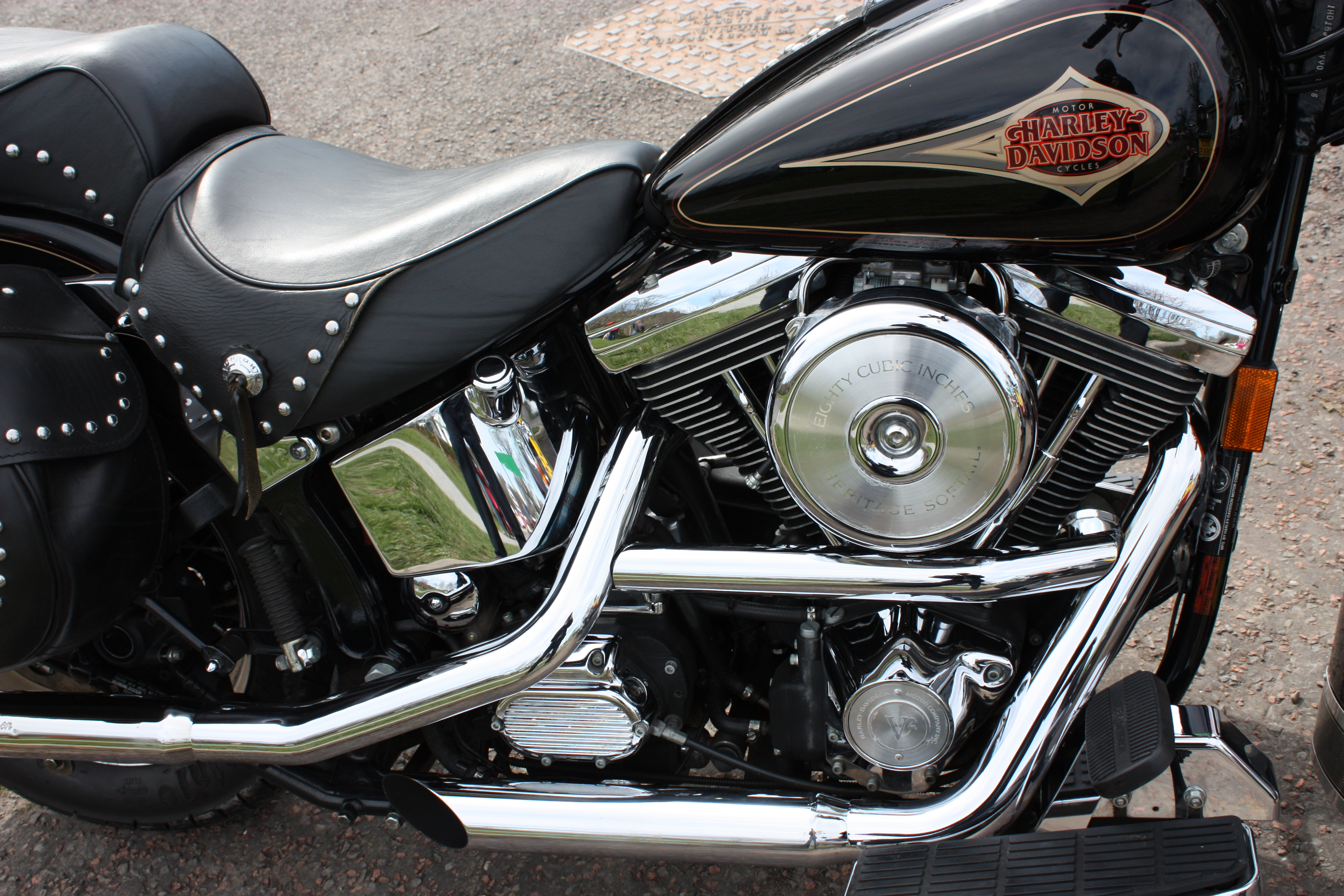 Harley-Davidson Heritage Softail, Delamont Country Park, Killyleagh, County Down, Northern Ireland, April 2010